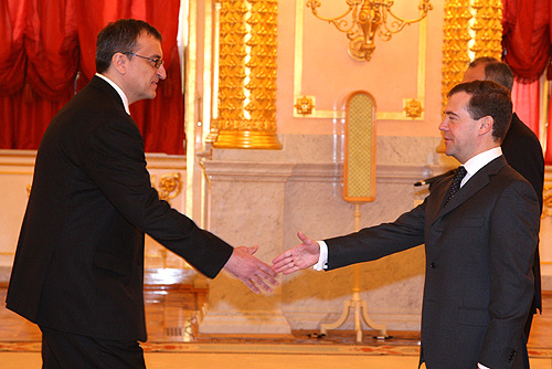 THE KREMLIN, MOSCOW. Presentation ceremony of foreign ambassadors’ letters of credentials. Ambassador of Bosnia and Herzegovina Zeljko Janjetovic presents his letter of credentials to the President.